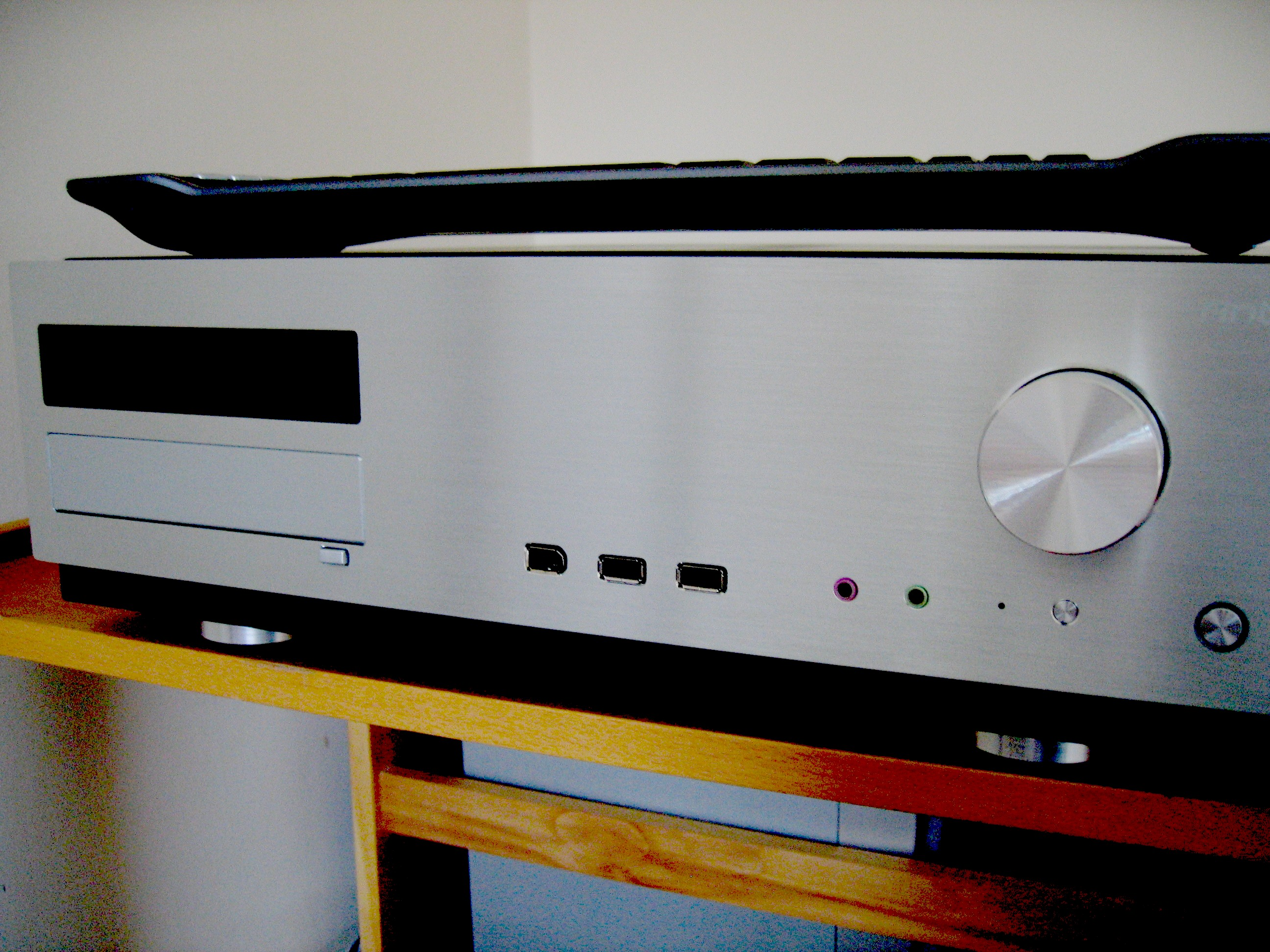 Pretty nice, isn't it? When you boot it up, the 2-line VFD comes on, and the power LED lights up a really bright white. AMD Athlon 64 X2 4600+. Abit AN-M2HD Motherboard. OCZ 1GB 800MHz DDR2 Special Ops Edition. Western Digital WD2500AAKS 250GB Hard Drive. Pioneer BDC-S02 Blu-Ray Reader / DVD Writer. Antec Fusion V2 MATX Media Center Case. Windows Media Center Remote (2005 version). Windows Media Center Keyboard (2005 version).